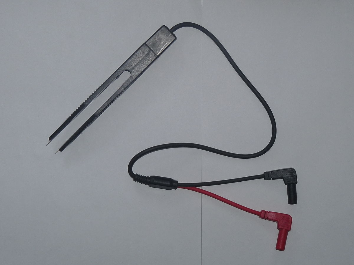 Tweezer TLM12 for SMD testing